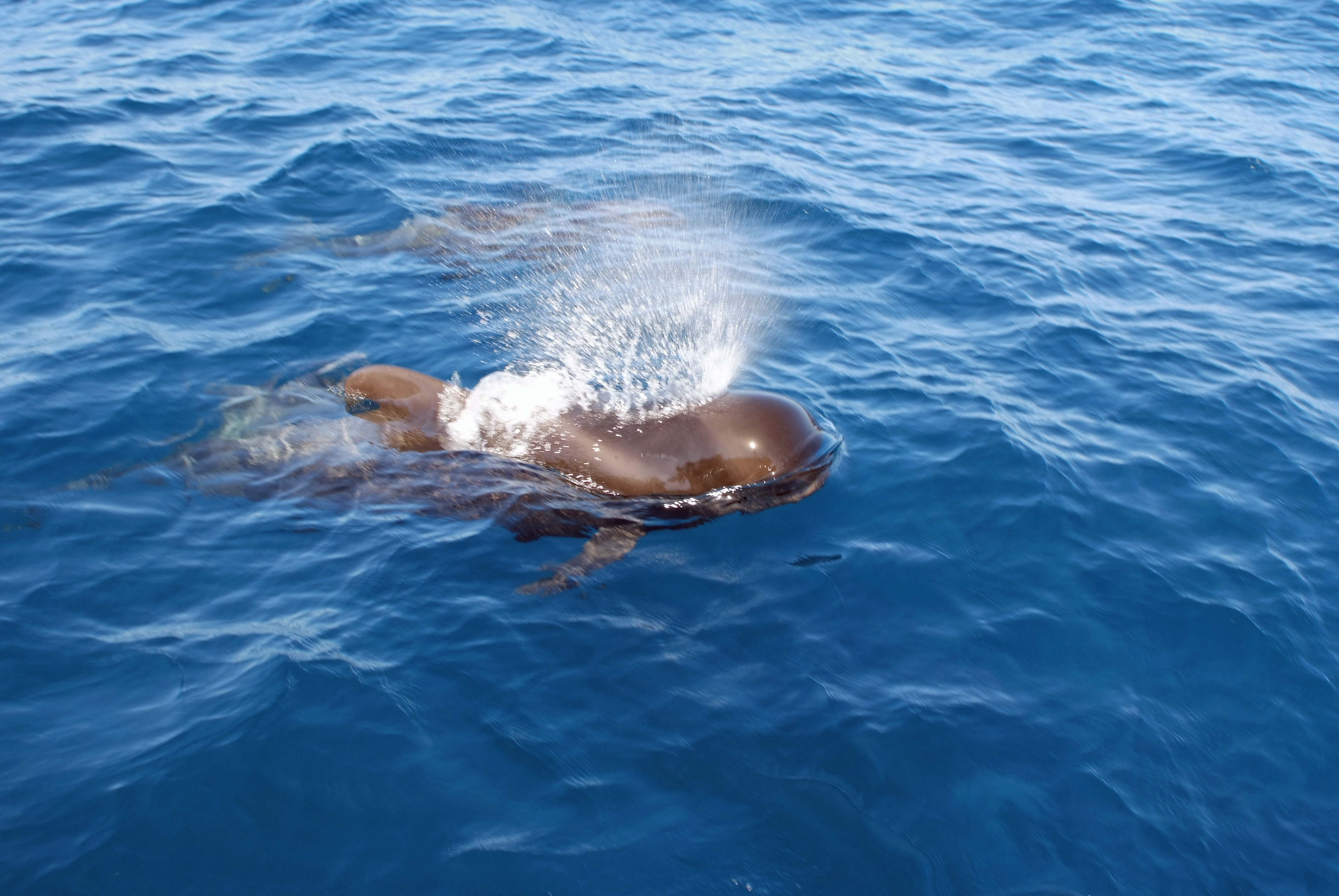 young Short-finned Pilot Whale